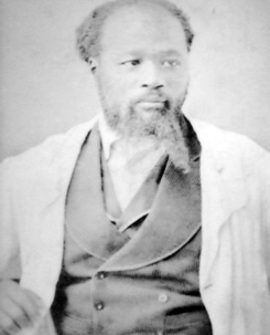 Rev James Dube was the father of John Dube the founder of Ohlange High School. James looked after the Inanda Seminary School after David Lindley left until James death in 1877